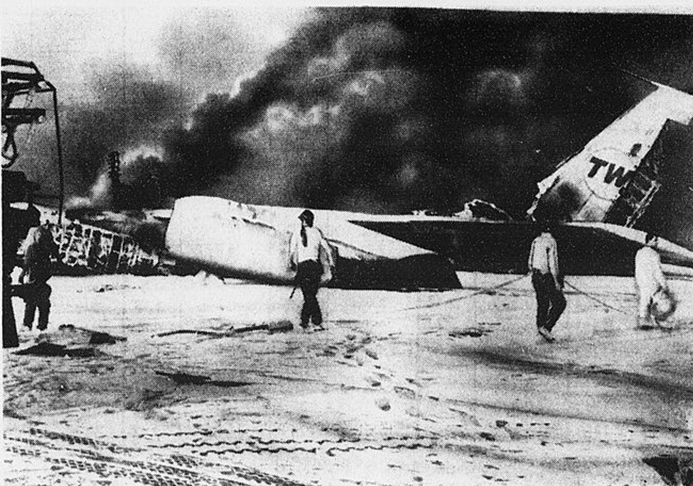 TWA Flight 800（N769TW） wreckage